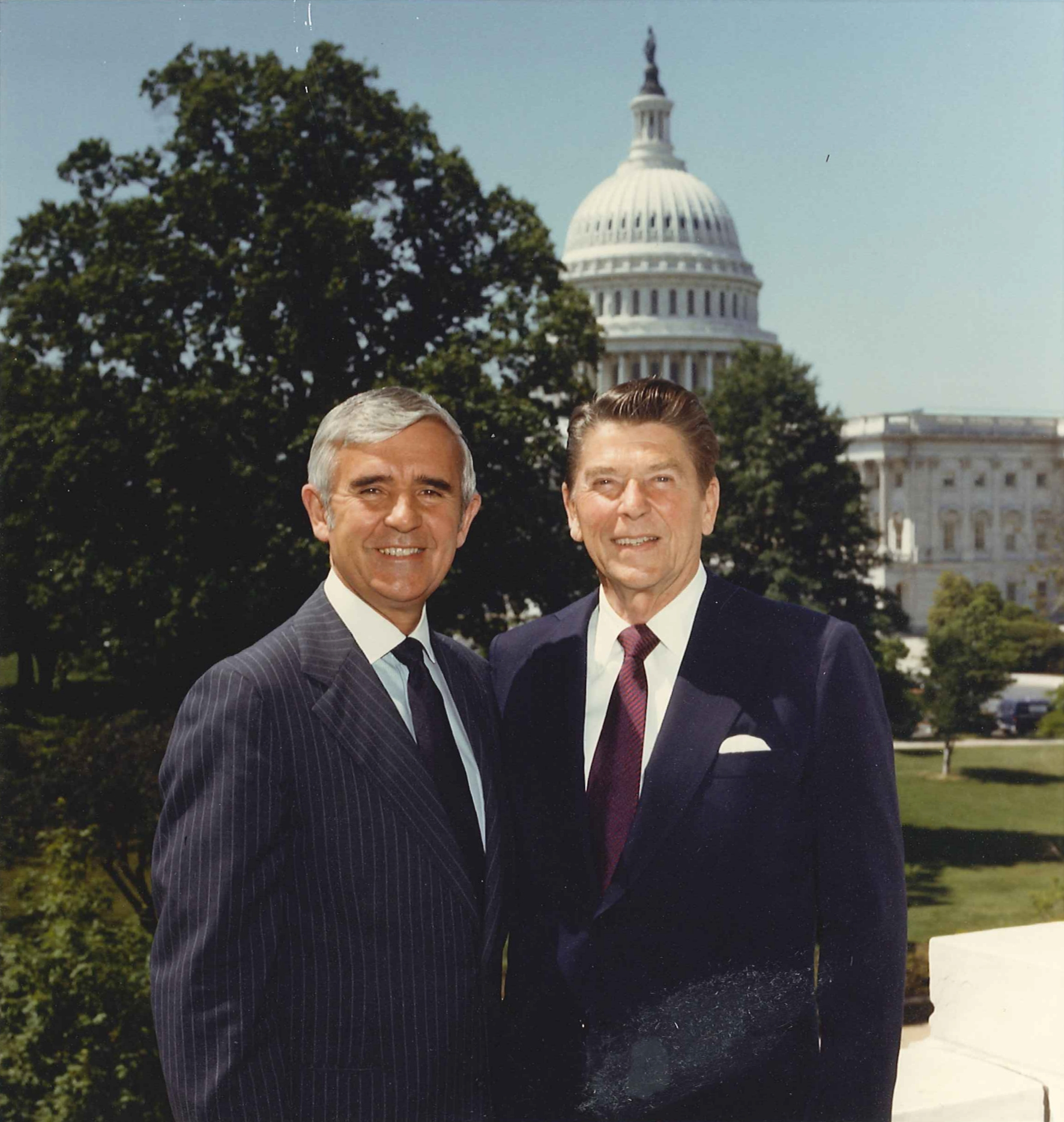 Paul Laxalt, former Governor and U.S. Senator from Nevada with Ronald Reagan, then campaigning for the Presidency